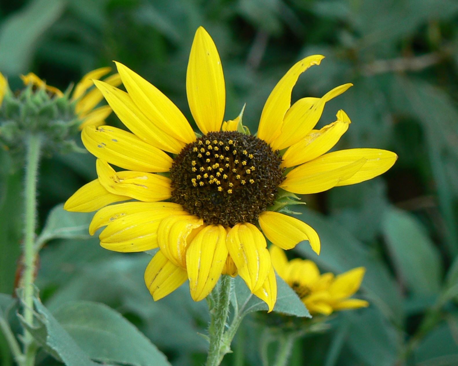 Plains sunflower (Helianthus petiolaris)